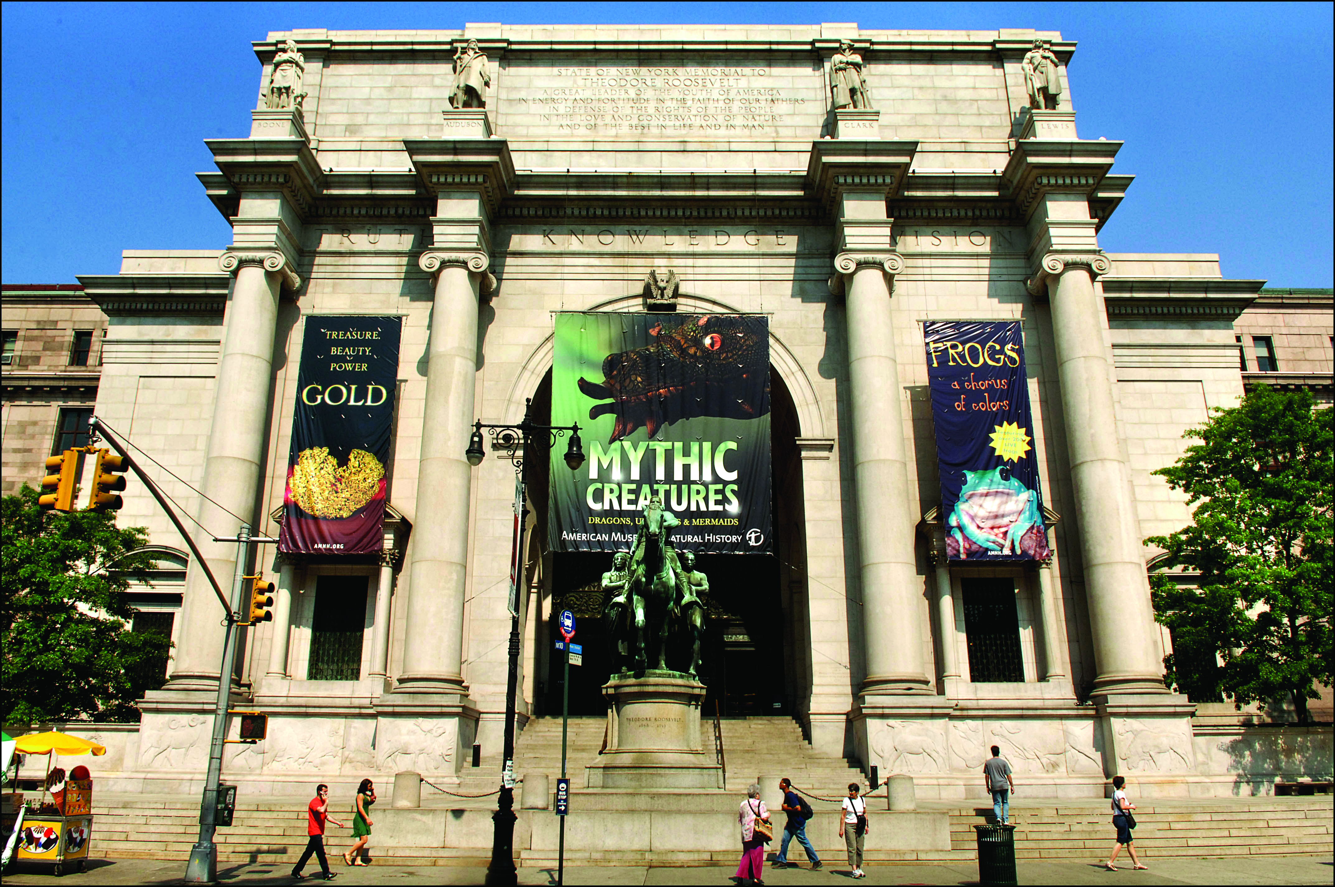 American Natural History Museum